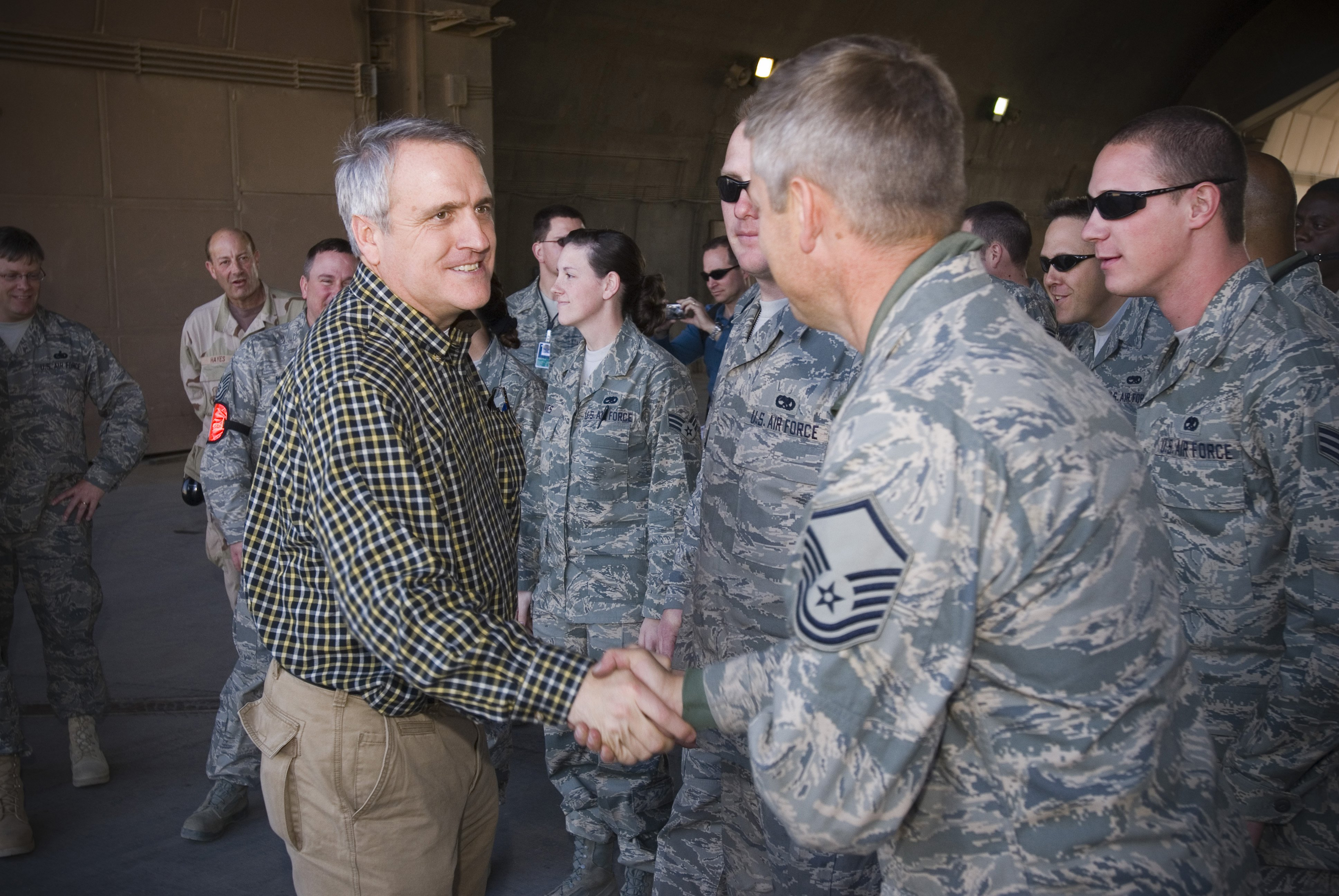 Colorado Gov. Bill Ritter meets with U.S. Air Force Airmen of the 332nd Expeditionary Fighter Squadron on Balad Air Base, Iraq. Ritter is in the area visiting Guardsmen deployed from his state.